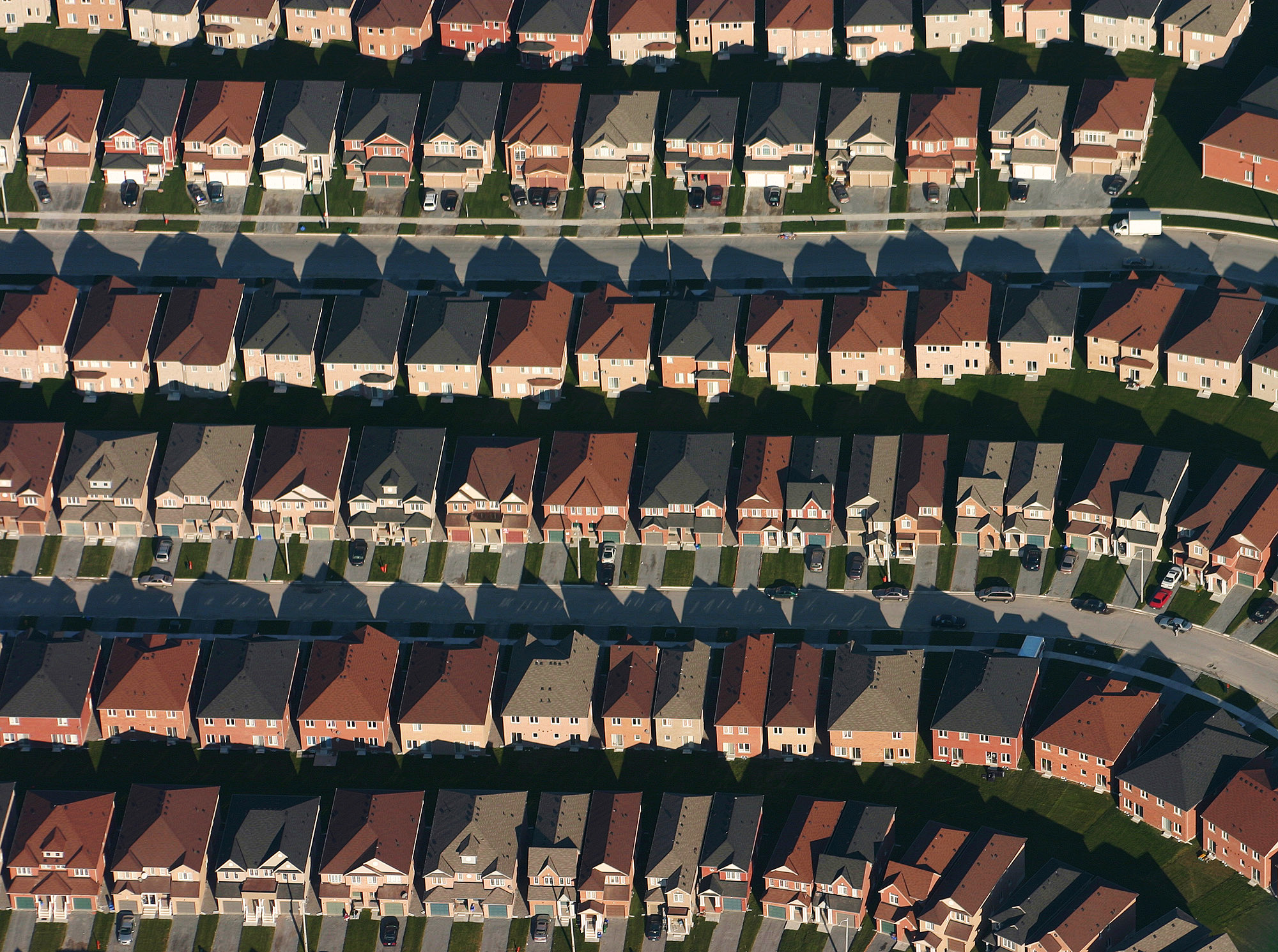 An aerial view of housing developments near Markham, Ontario Photo by IDuke, November 2005.